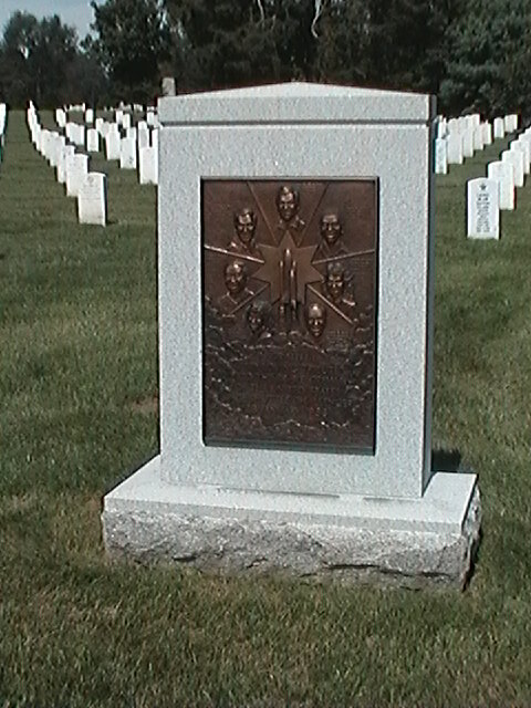 Space Shuttle Challenger Memorial at Arlington National Cemetery.